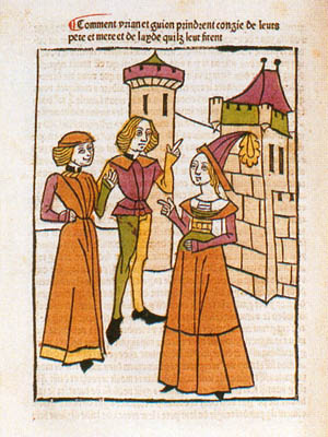 Book of Melusine